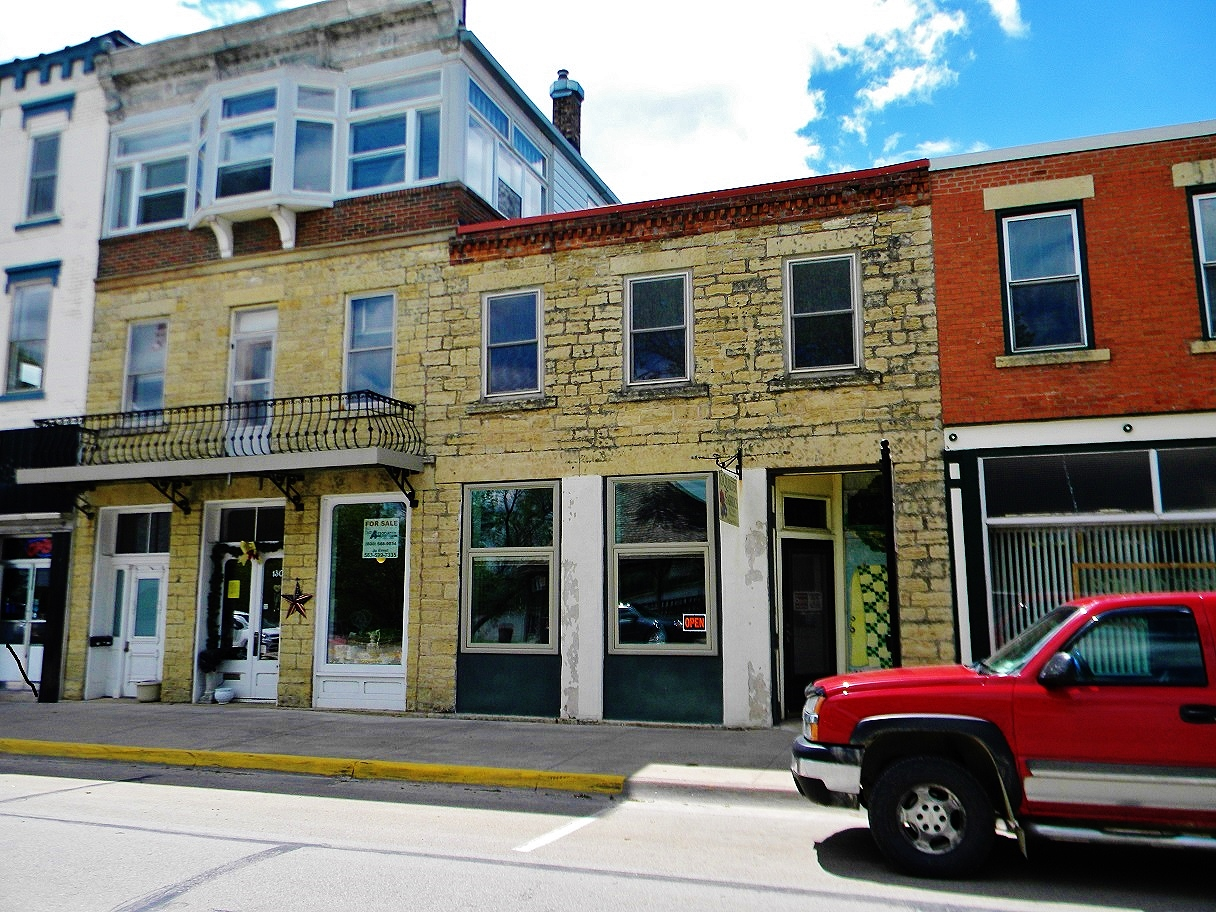 Building at 130-132 North Riverview Street